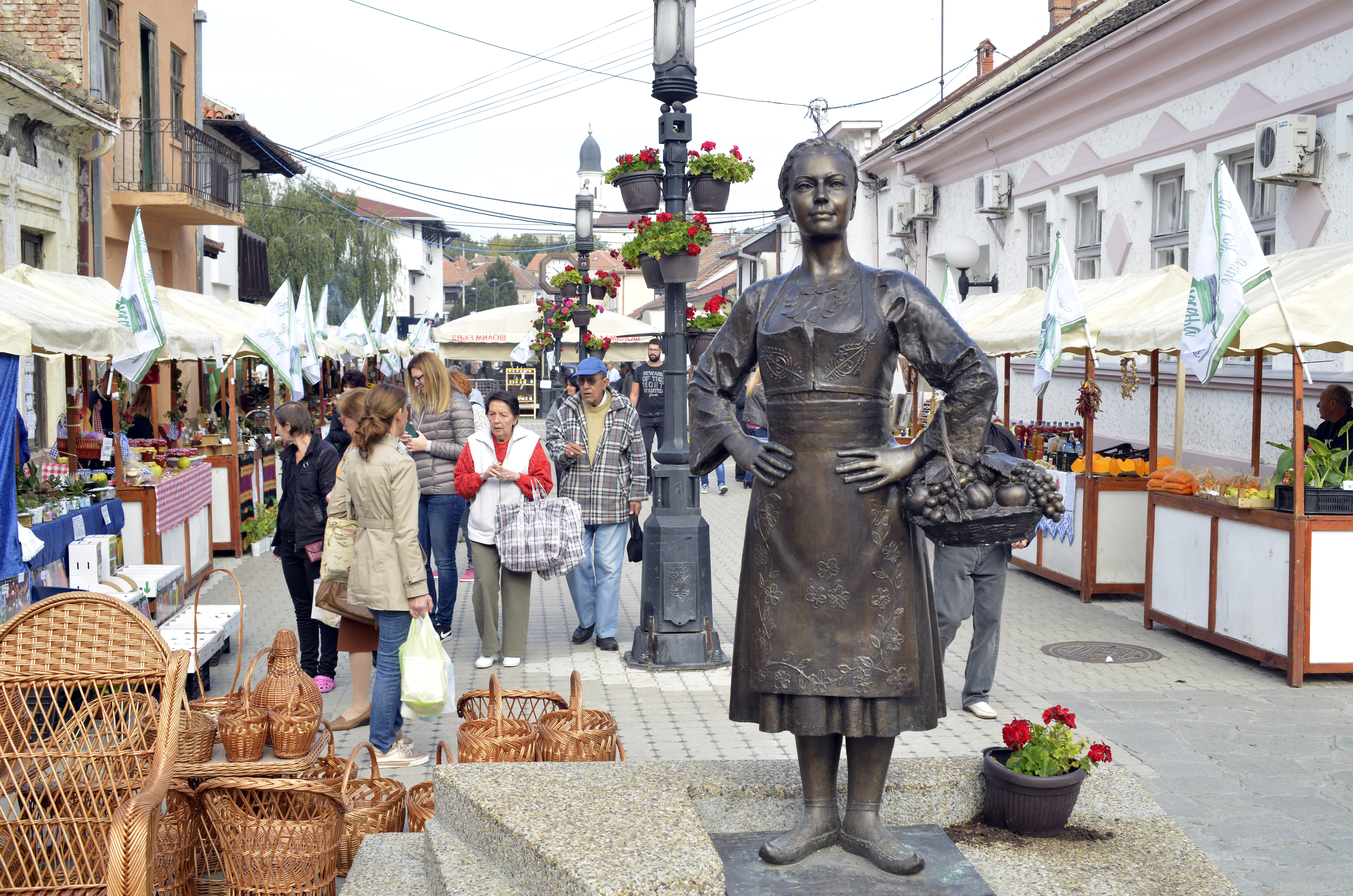 Sculpture "Gročanka" (a woman from Grocka) Grocka's Čaršija (Grocka, a town near Belgrade)